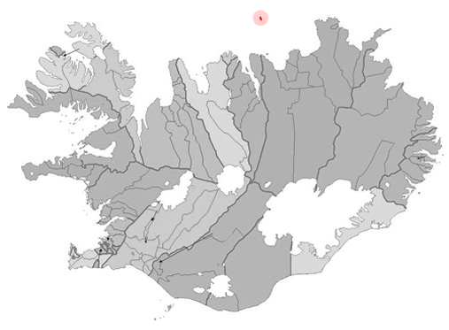 Based on Municipalities of Iceland.png.